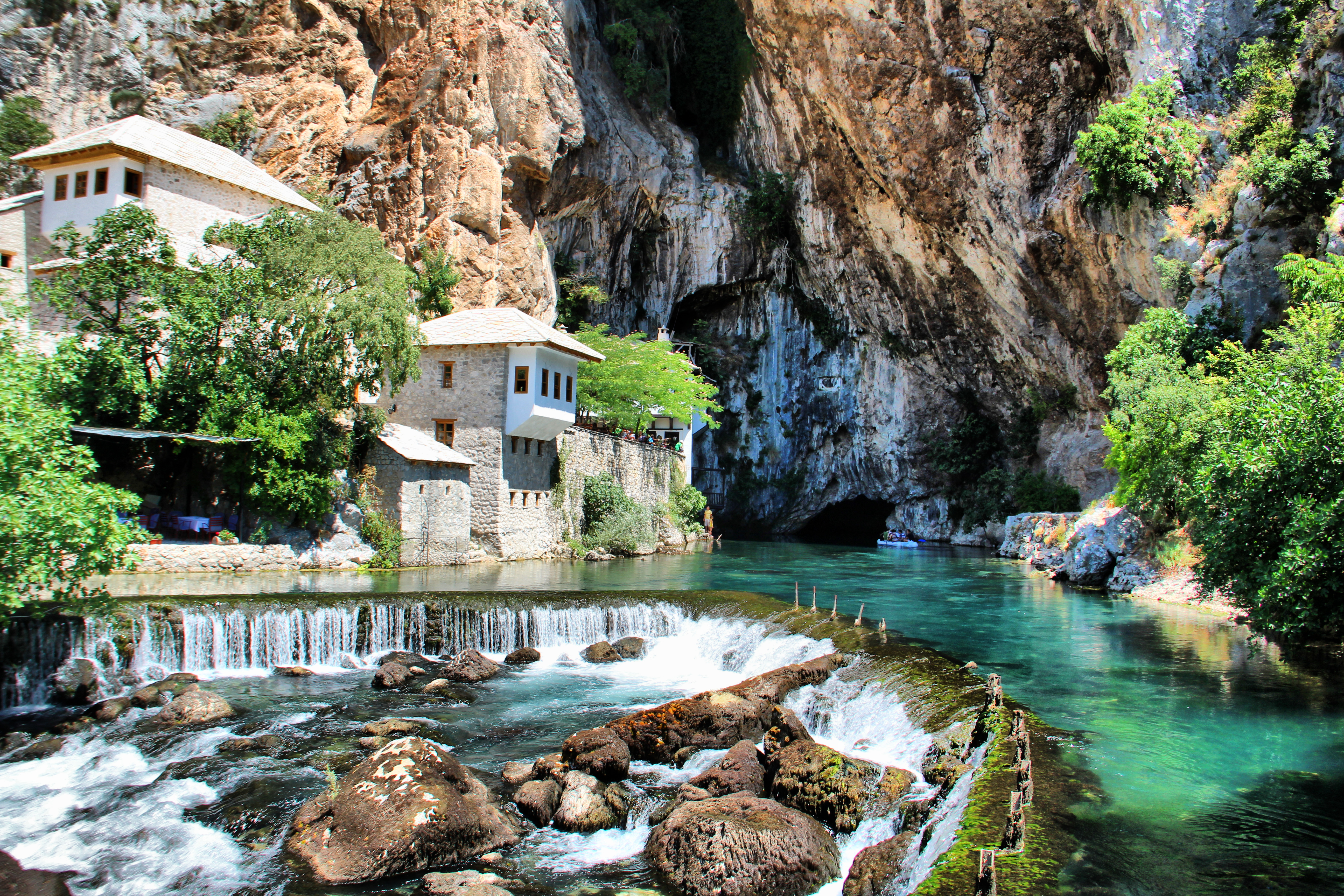 Buna river, near the town of Blagaj, Bosnia and Herzegovina, resurging as one of the biggest karst springs in Europe.